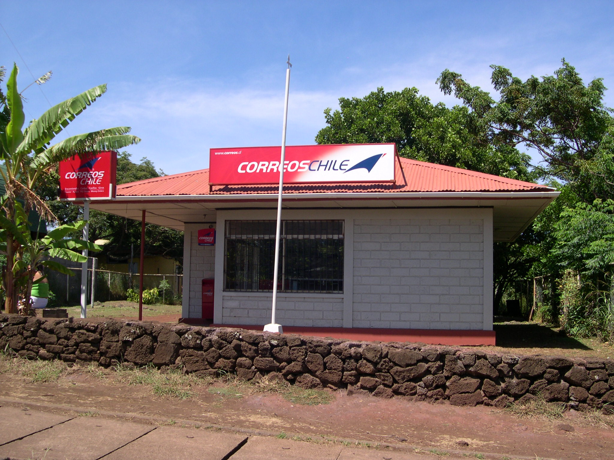 Hanga Roa Post Office